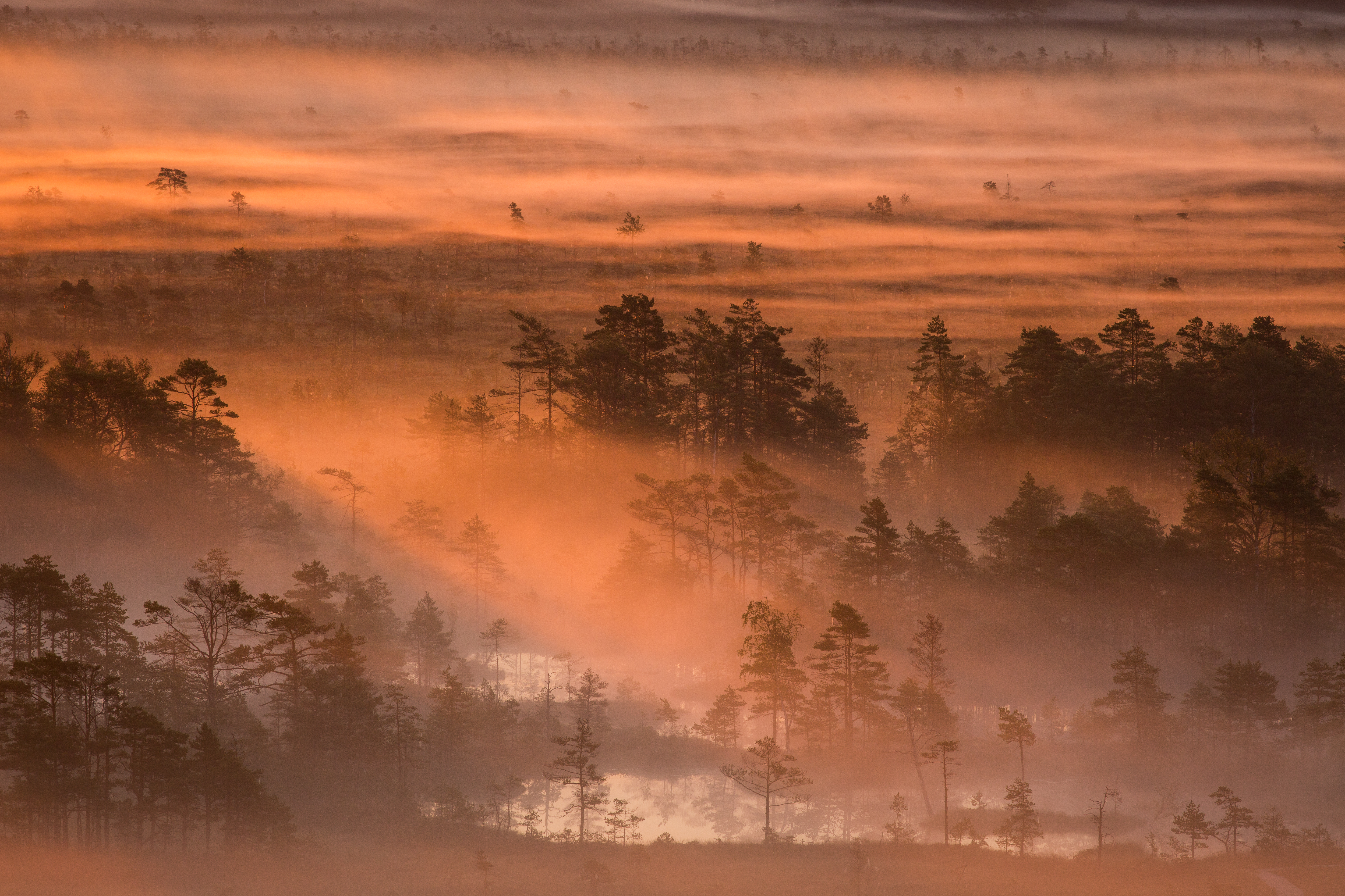 Morning in Tolkuse bog, Luitemaa Nature Conservation Area, Pärnu County, Estonia.